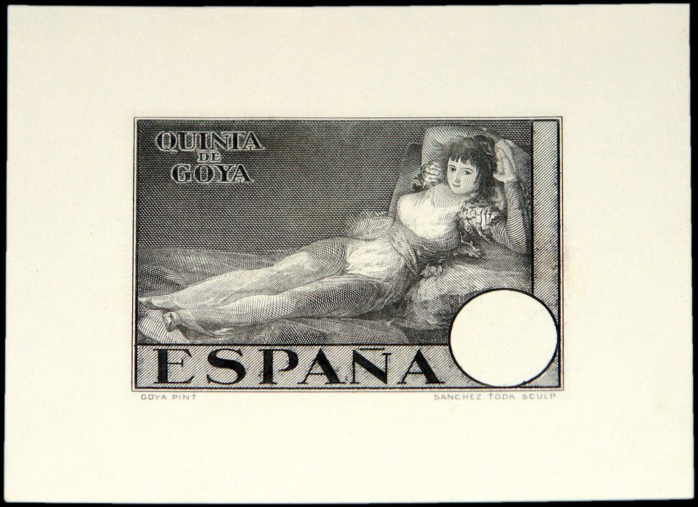 Essay of the postage stamp of Spain, The Clothed Maja by Francisco de Goya, 1930.